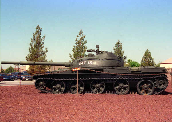 T-62 tanks at the Nellis Air Force Base